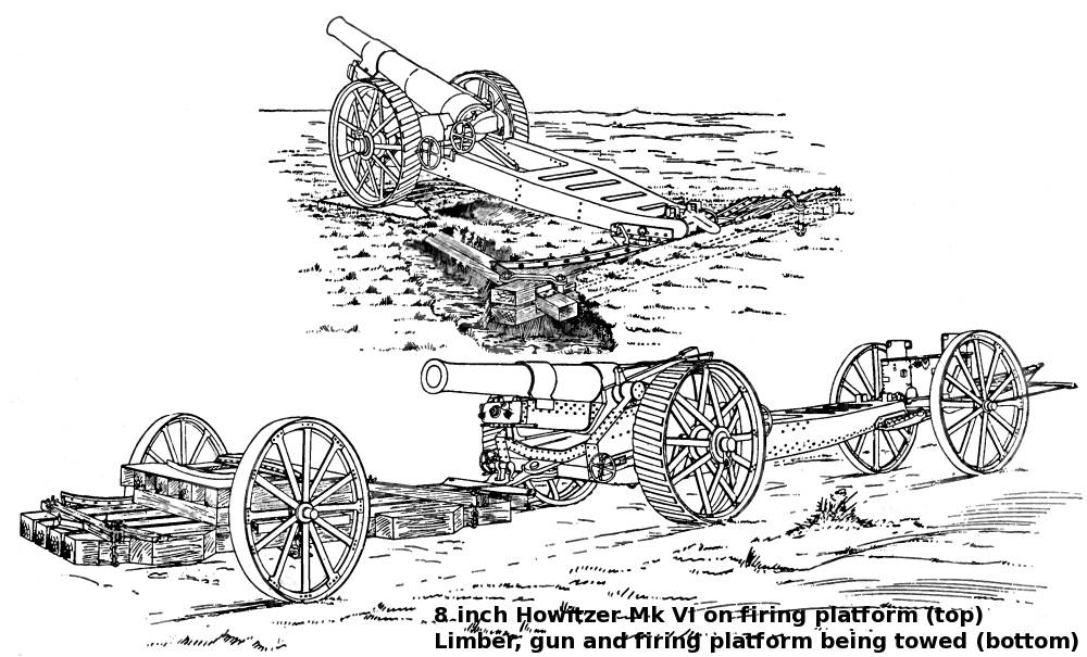 Diagrams of 8 inch Mk VI howitzer on firing platform and en train, showing sequence of limber, gun and platform, US Army service.